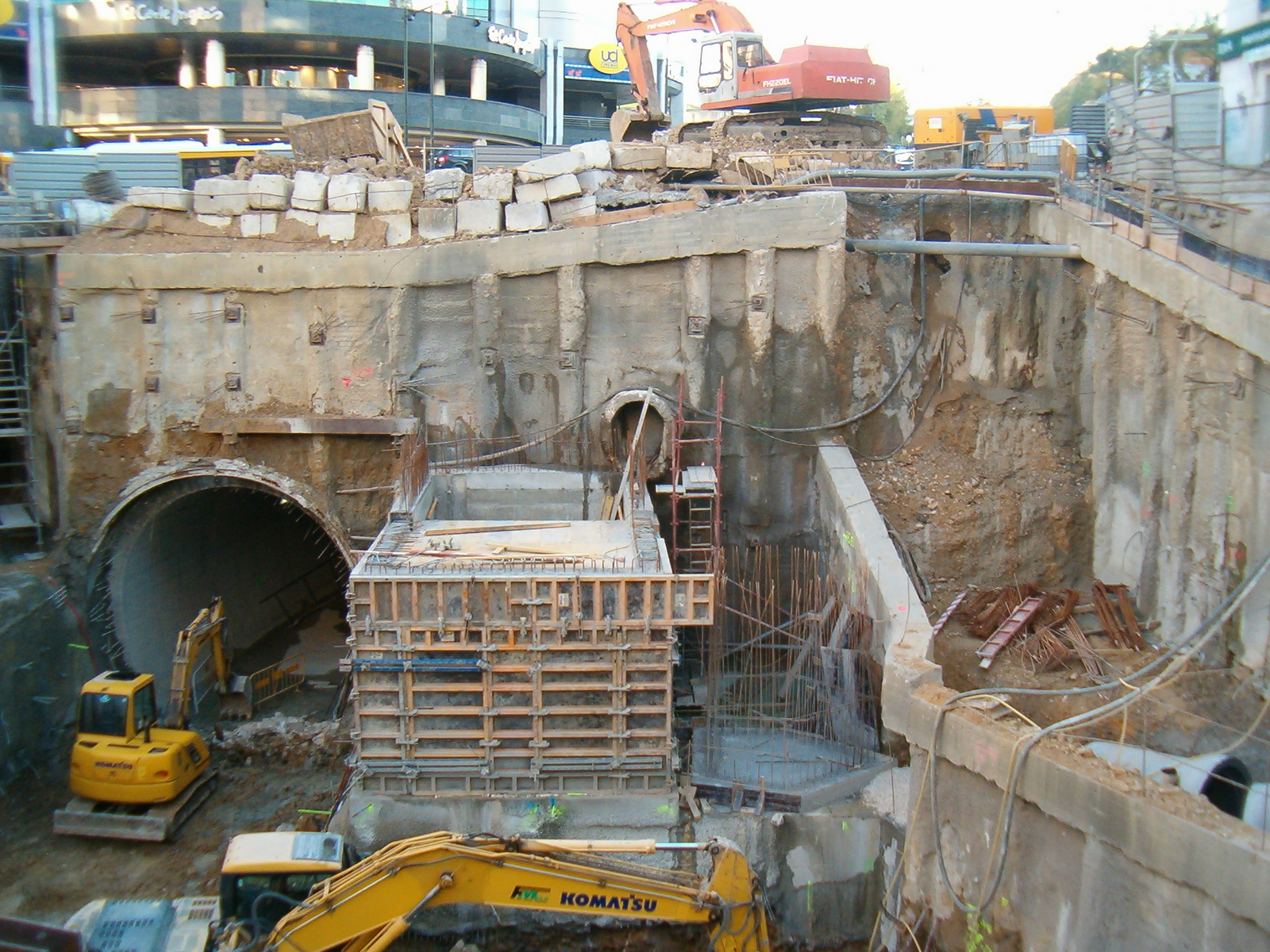 Metro station São Sebastião (Lisboa) - construction of new connection with Red line